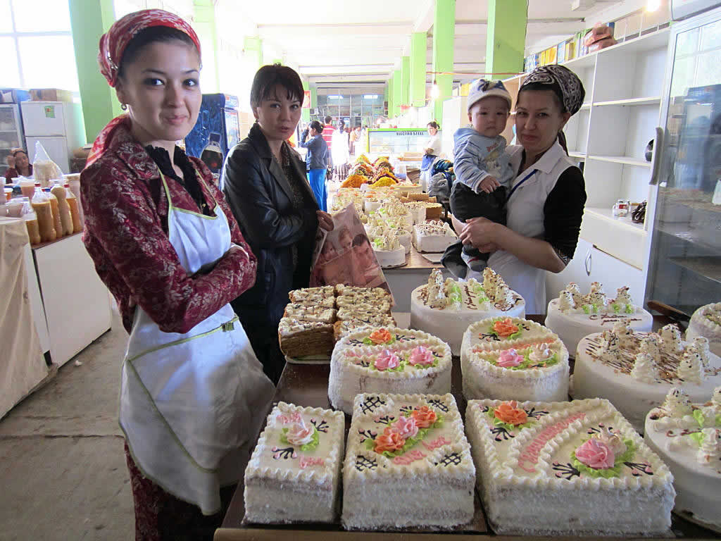 cake sellers, Bai Bazaar, Dashoguz, Turkmenistan